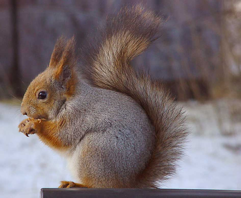 A european squirrel (Sciurus vulgaris)